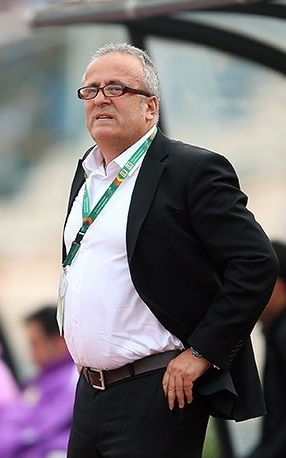 Ioannis Topalidis, head coach of Rah Ahan in Azadi Stadium during match with Esteghlal